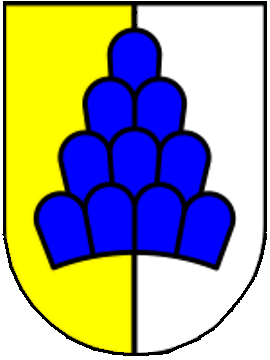 Coat of arms of Salenstein, Canton of Thurgau, SwitzerlandEsperanto: Blazono de Salenstein, Kantono Turgovio, Svislando